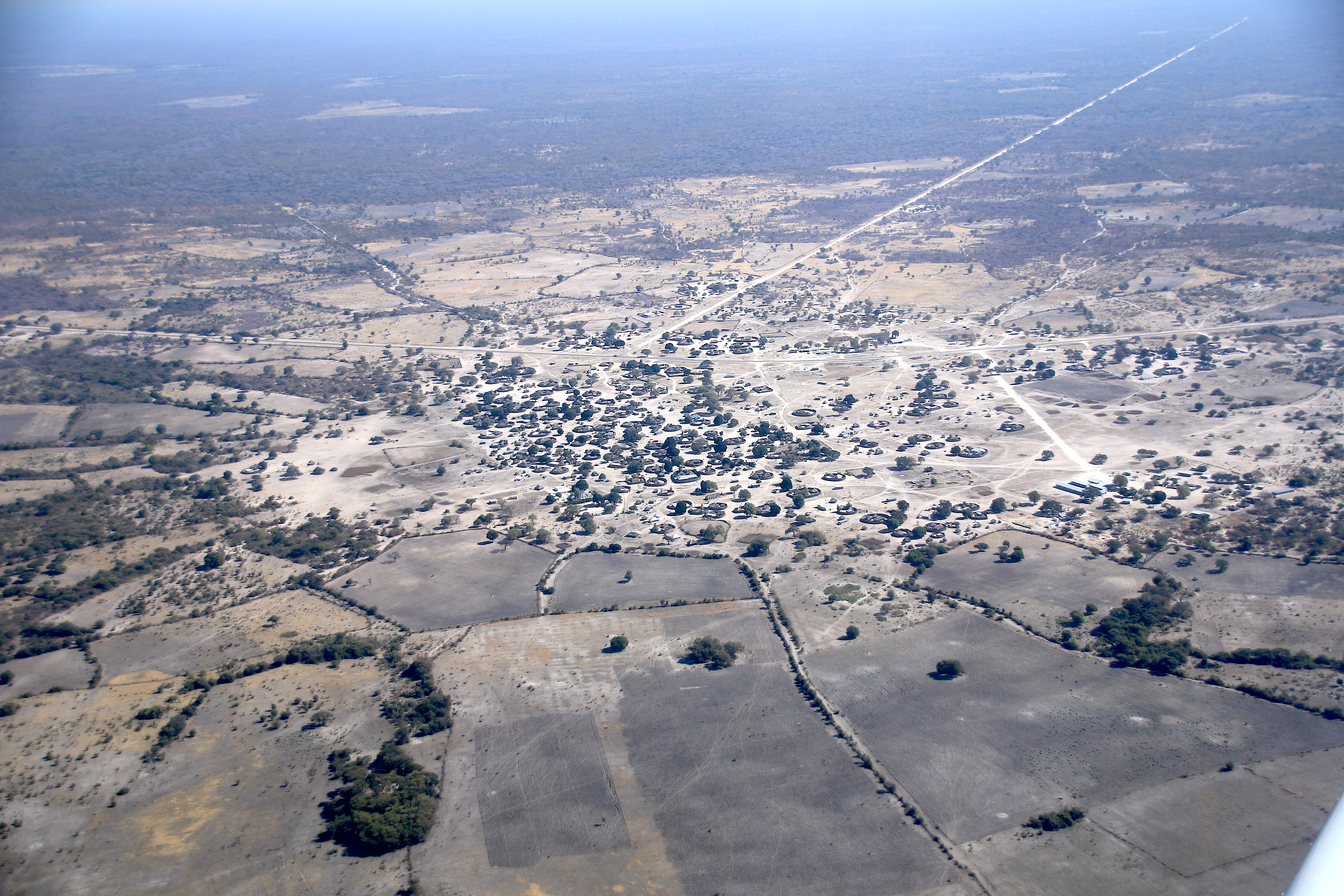 Linyanti aerial view (2019)